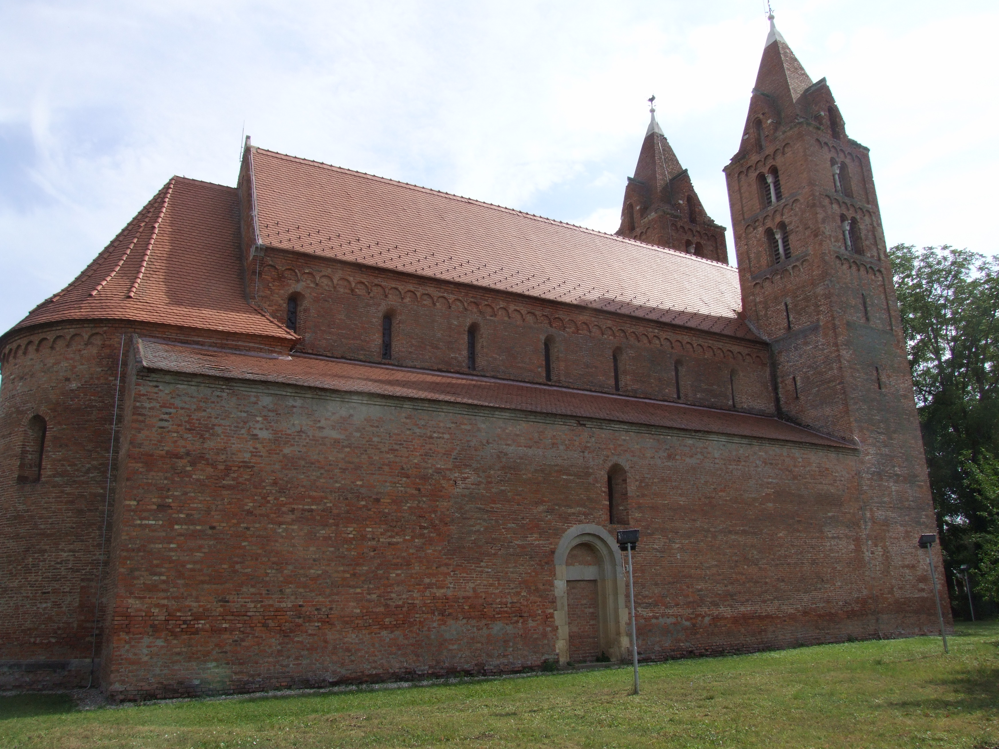 Acâș, Satu Mare County, Romania. - Abbey church, looking SW.